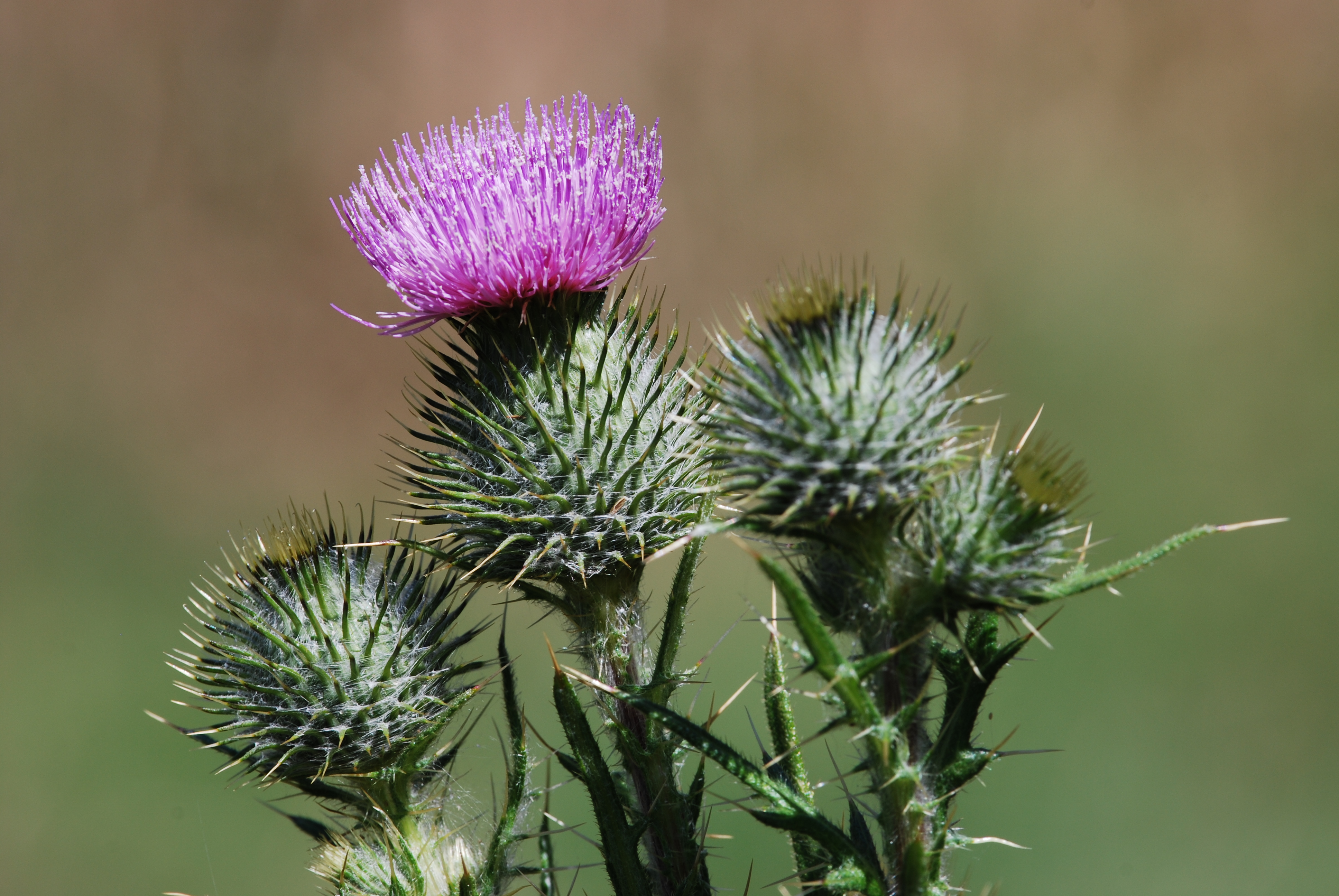 Spear Thistle (Cirsium vulgare) in Carrick, Tasmania